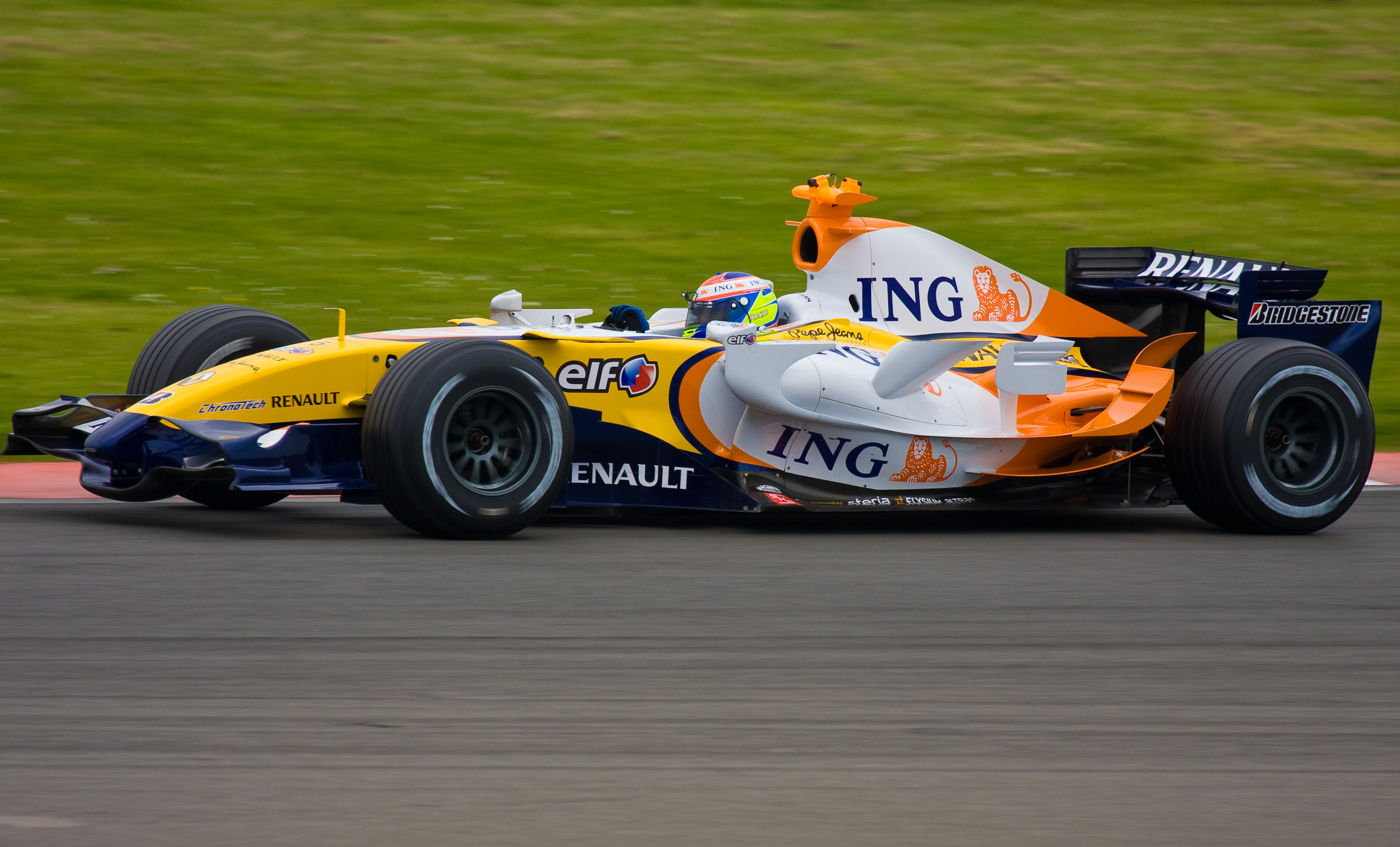 Romain Grosjean demonstrating a Renault R27 at Silverstone in June 2008.